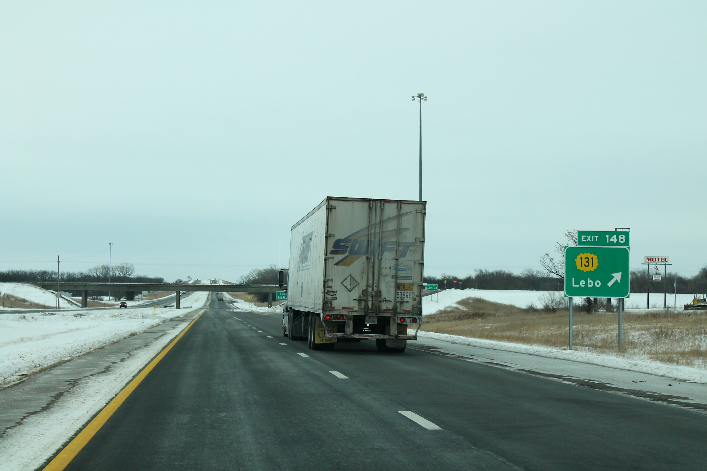 Int35nRoad-Exit148-KS131